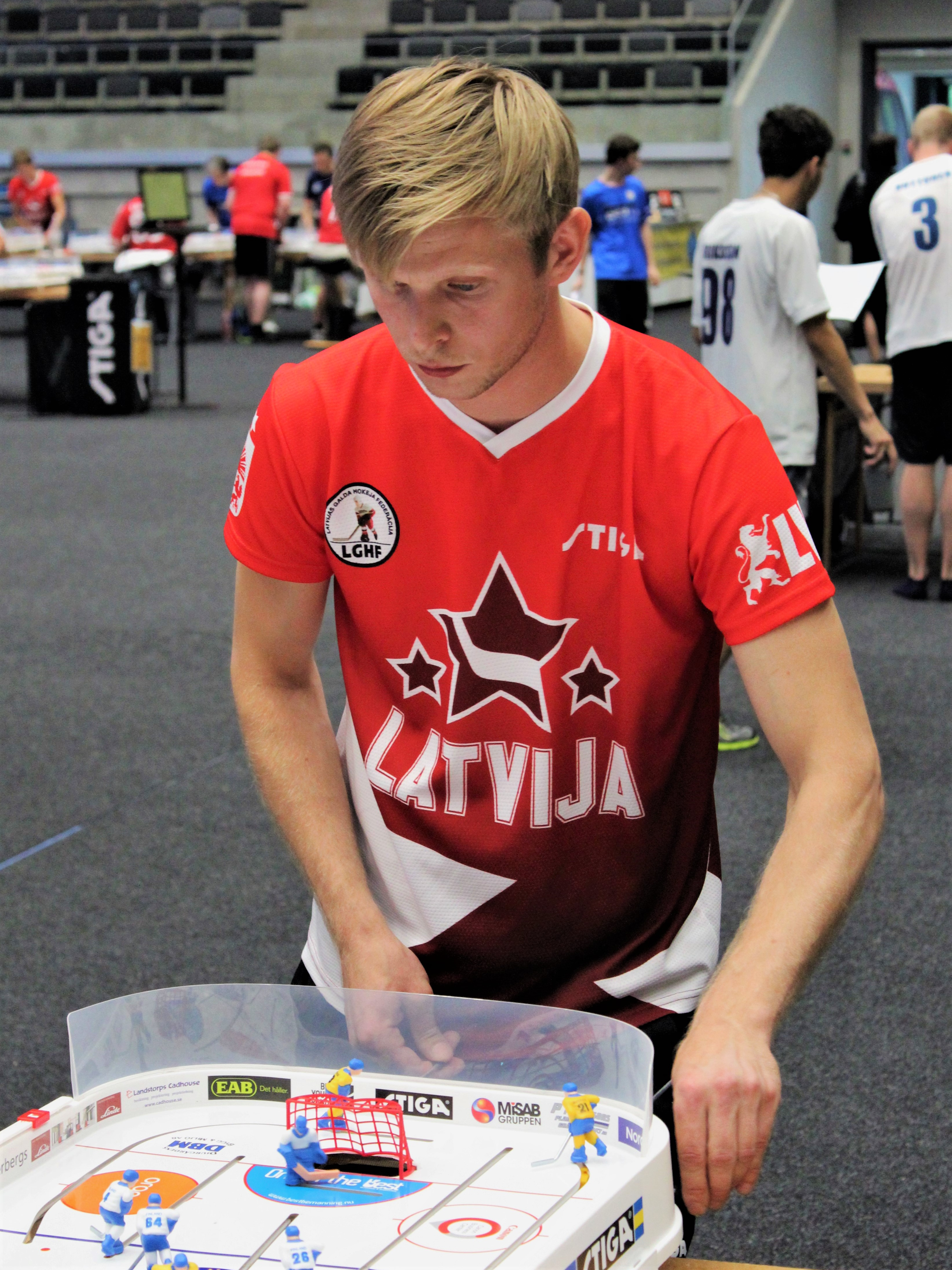 Former world champion in ITHF table hockey Atis Sīlis (LV) at European Championship in Eskilstuna (SE), June 2018